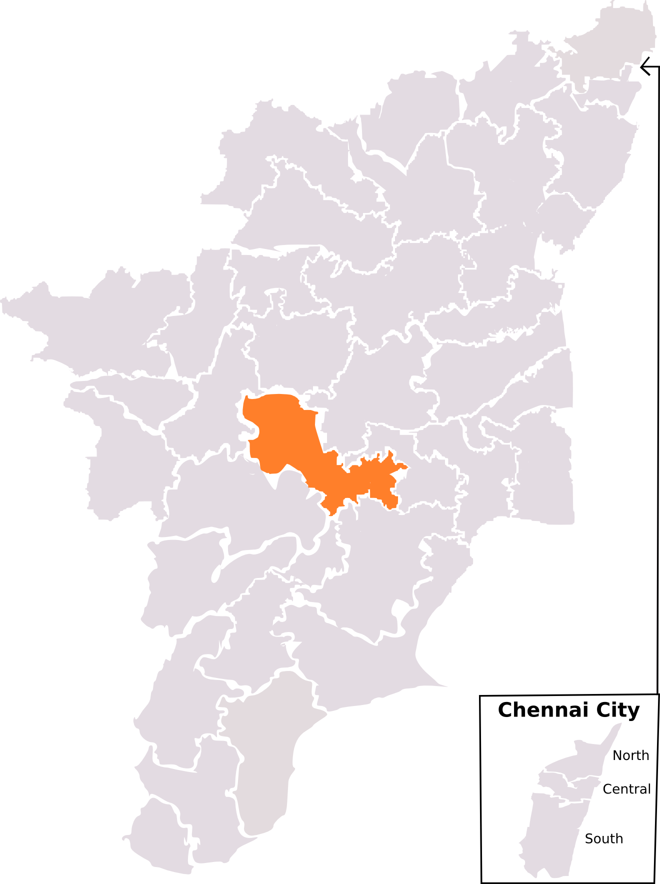 Lok Sabha Election map for Tamil Nadu. Map is based on ECI drawn map. Results are based on ECI website.